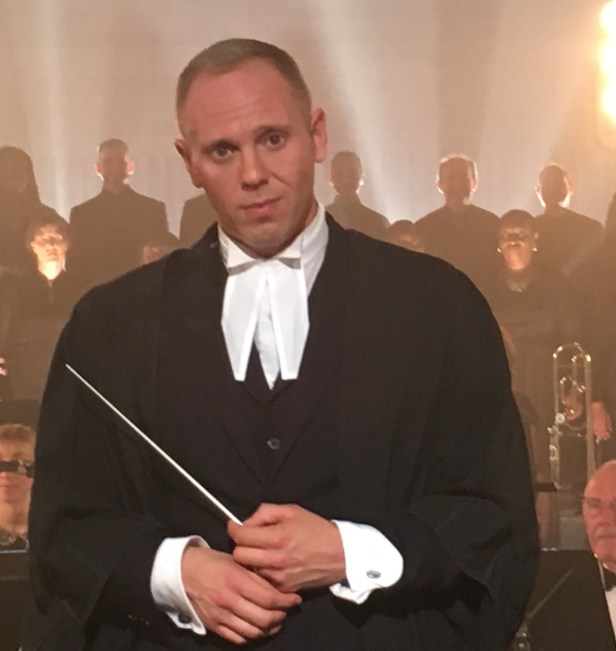 Rinder conducting local Manchester choir